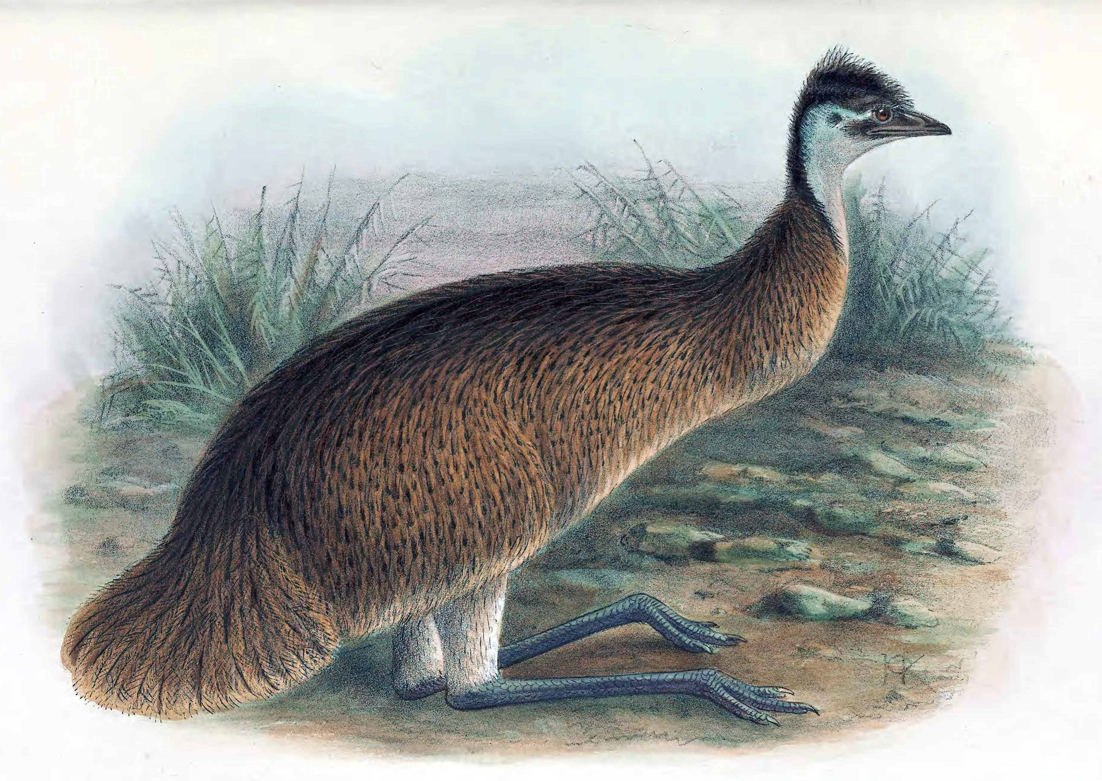 Hand coloured lithograph (circa 1910) of (Dromaeius diemenensis) which is now a synonym of the Tasmanian Emu (Dromaius novaehollandiae diemenensis) from The Birds of Australia (1910-28) by Gregory Macalister Mathews (1876-1949) - artwork by John Gerrard Keulemans (1842-1912). Based on a skin at the British Museum, posed after a photograph of the mainland emu.